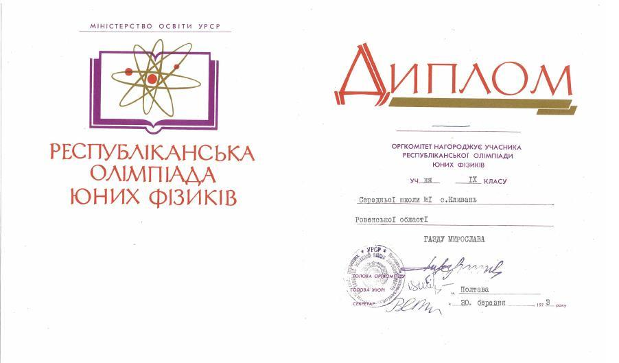 Diploma of the Republican competition of young physicists in Poltava, 1973, Miroslav Gazda, Klevan SSH№1